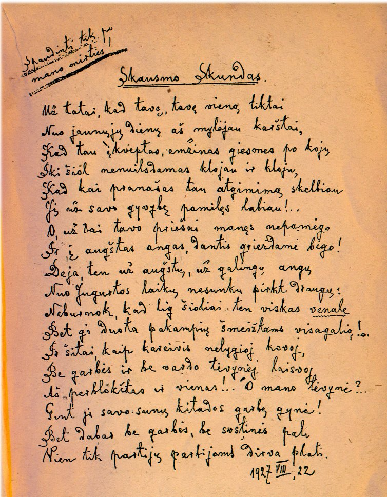 Poem "Skausmo skundas" (Pain complain) by Maironis (1862-1932)